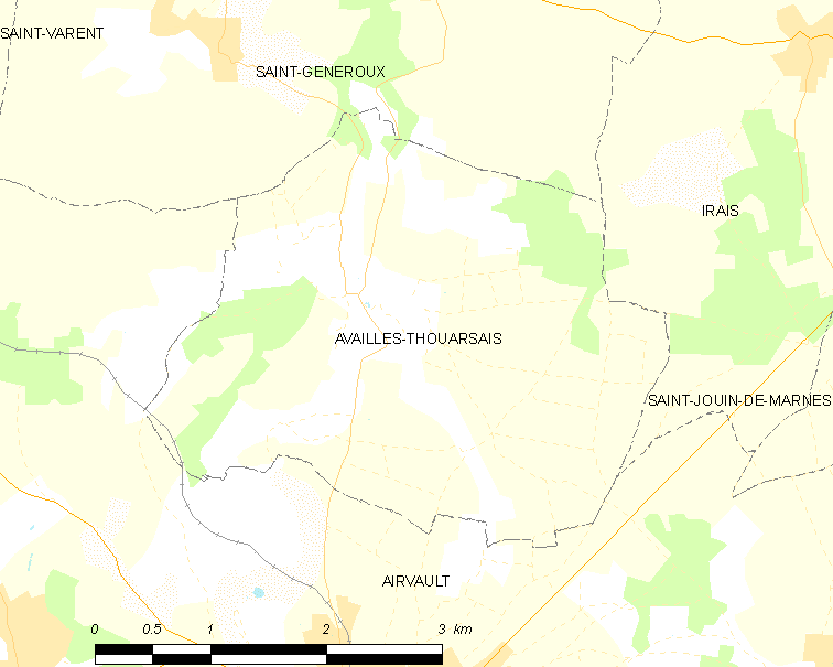 Map of French municipality Availles-Thouarsais